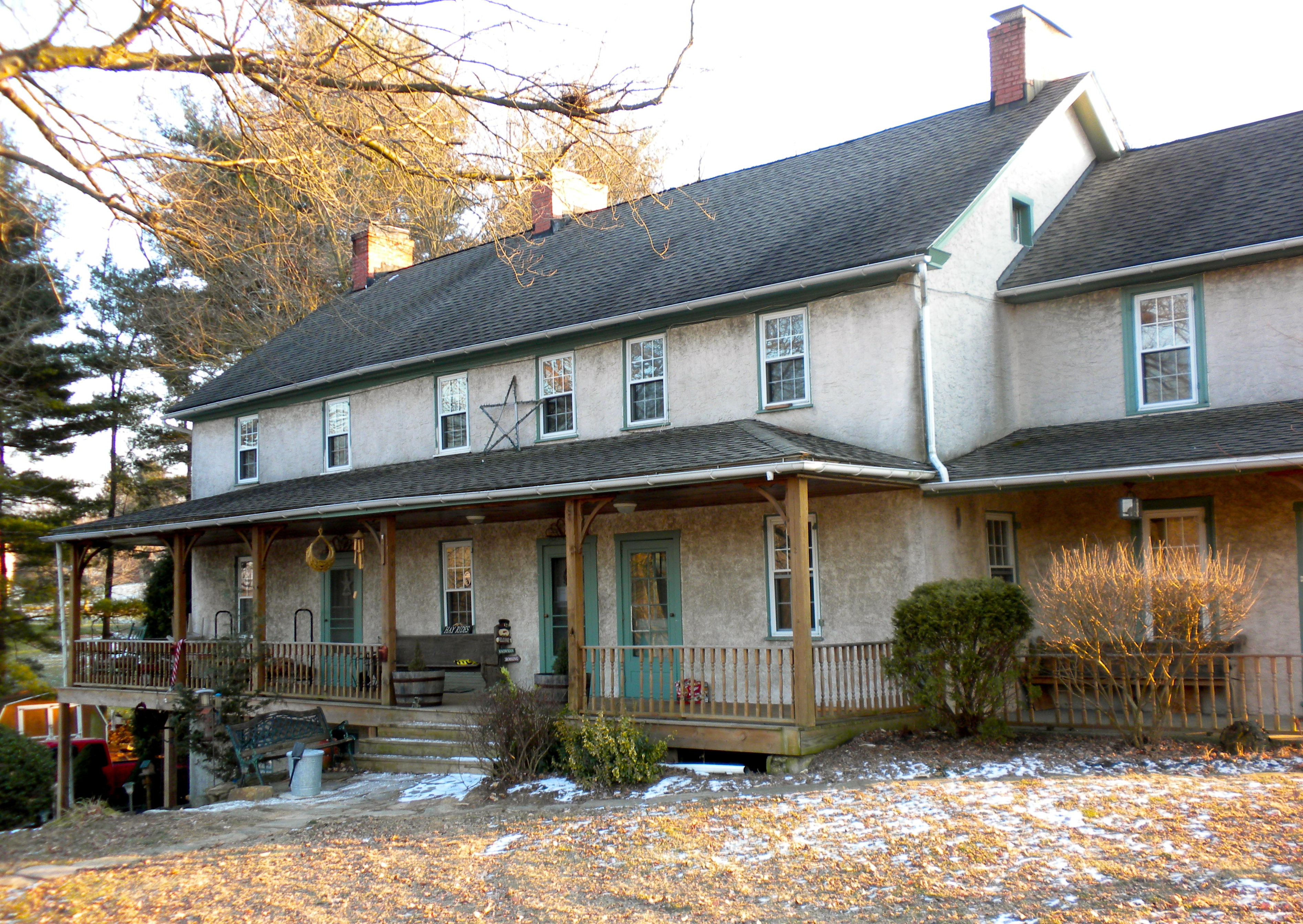 Drover's Inn on Strasburg Road near Coatesville in Chester County, Pennsylvania. Built in 1851 (?) to serve cattle drovers taking their cattle to market only the Strasburg Road from Lancaster, PA area to Chester County and the Philadelphia area. On the NRHP